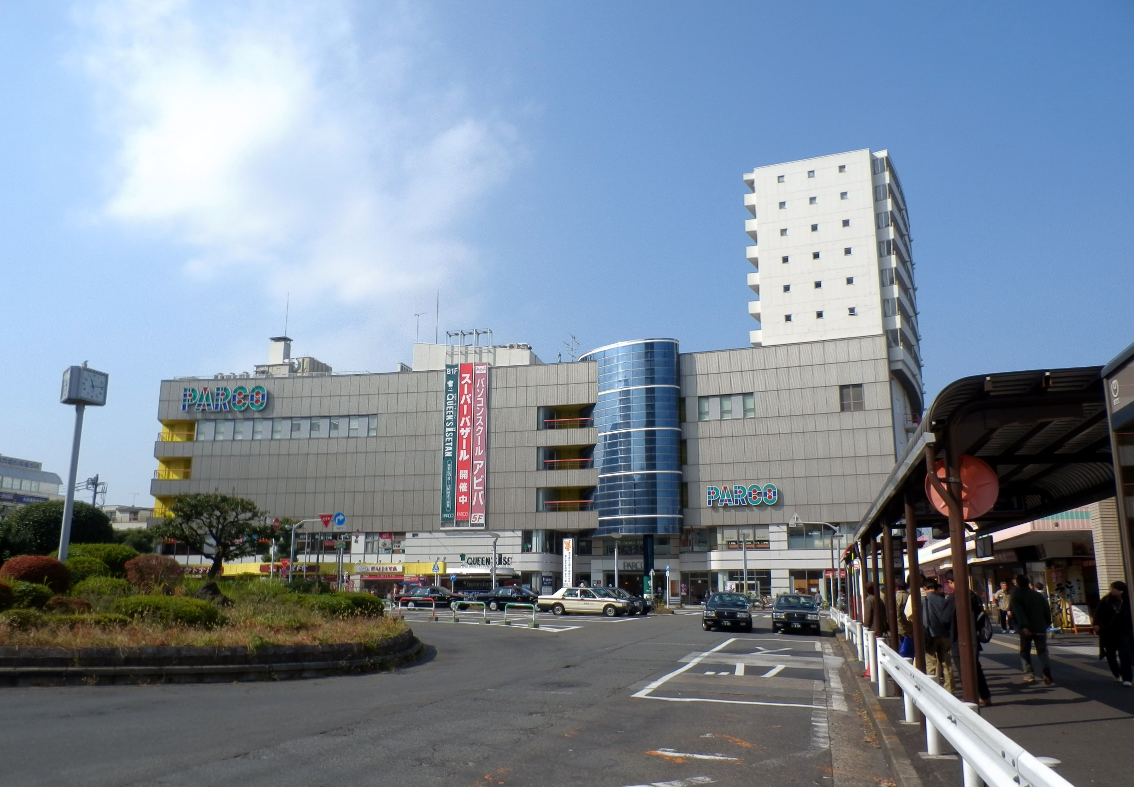 Hibarigaoka PARCO (Department store in Japan)